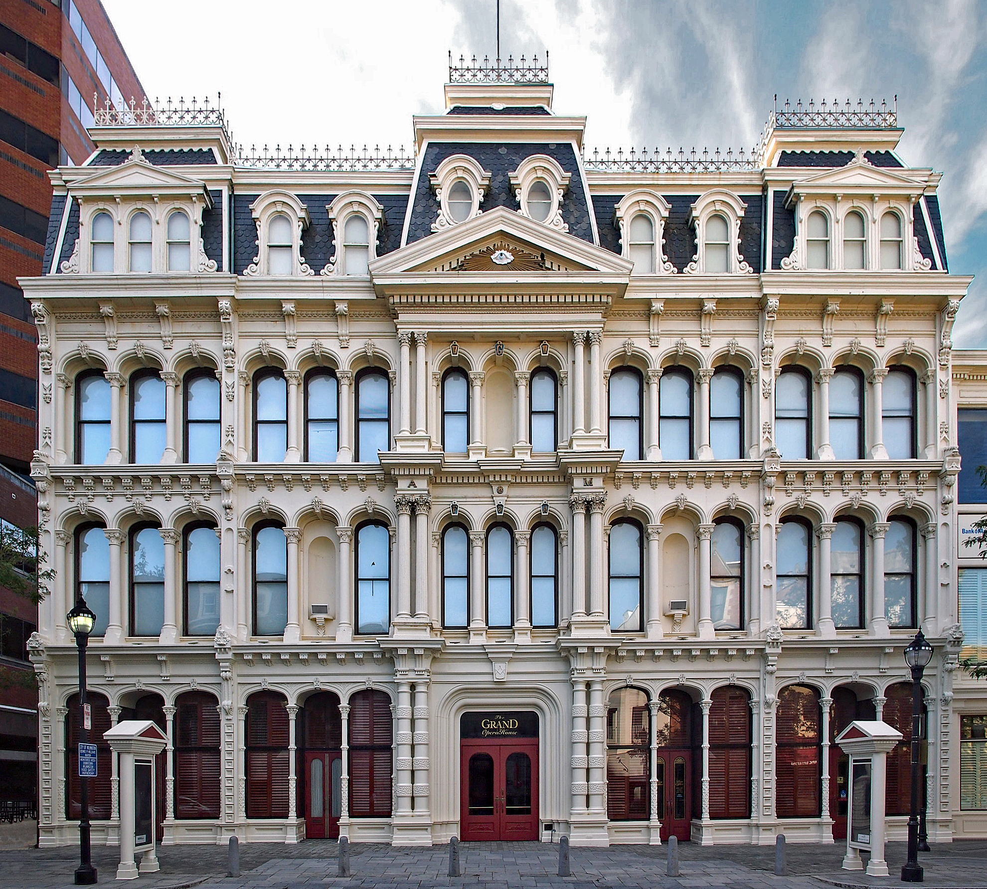 Grand Opera House, 818 N Market St, Wilmington, Delaware, USA. Viewed from the northwest.